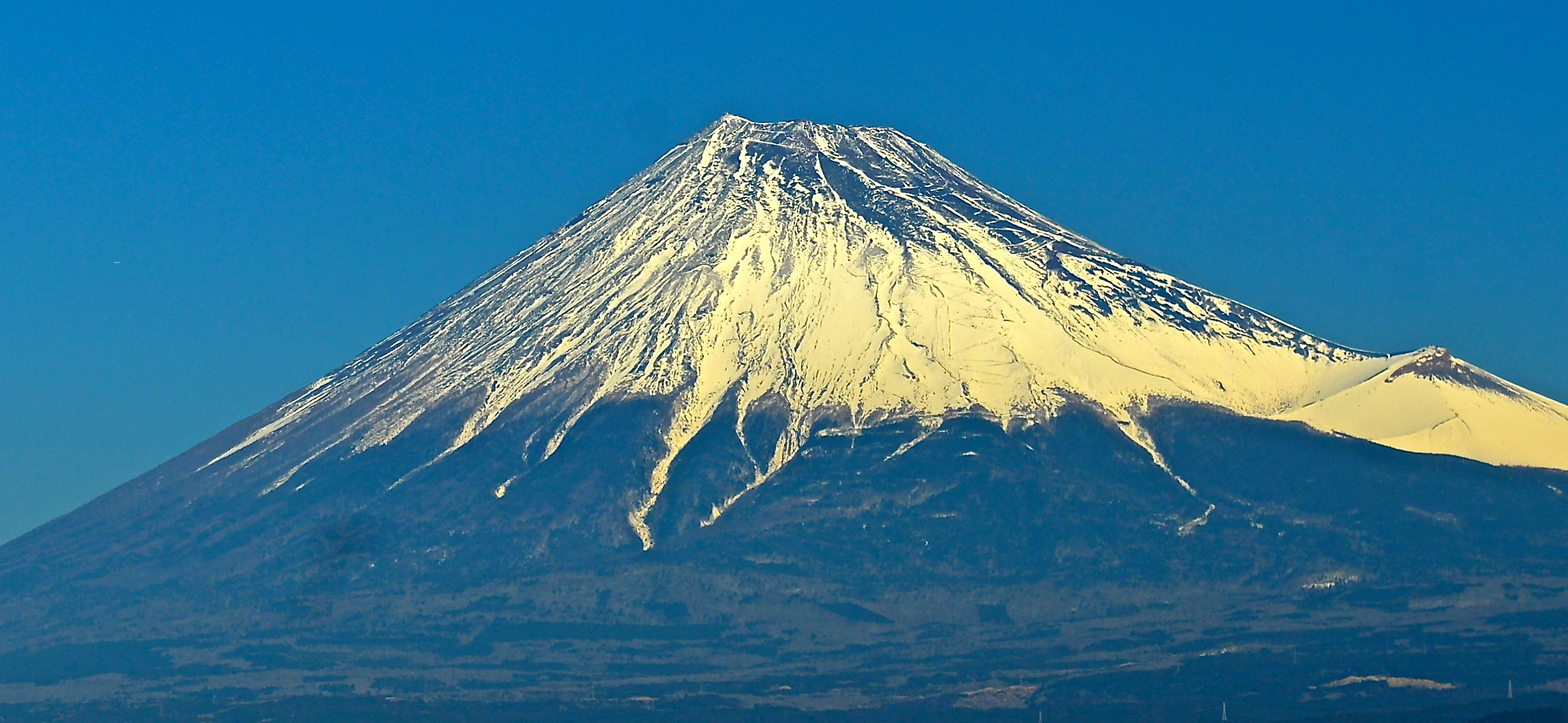 Mount Fuji, January 28, 2016